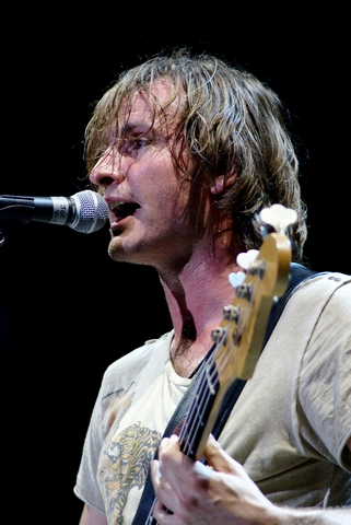 Joe Sumner with the band "Fiction Plane" opening act of the father's Concert Sting "The Police" au Madison Square Garden - New York le 1er Aout 2007